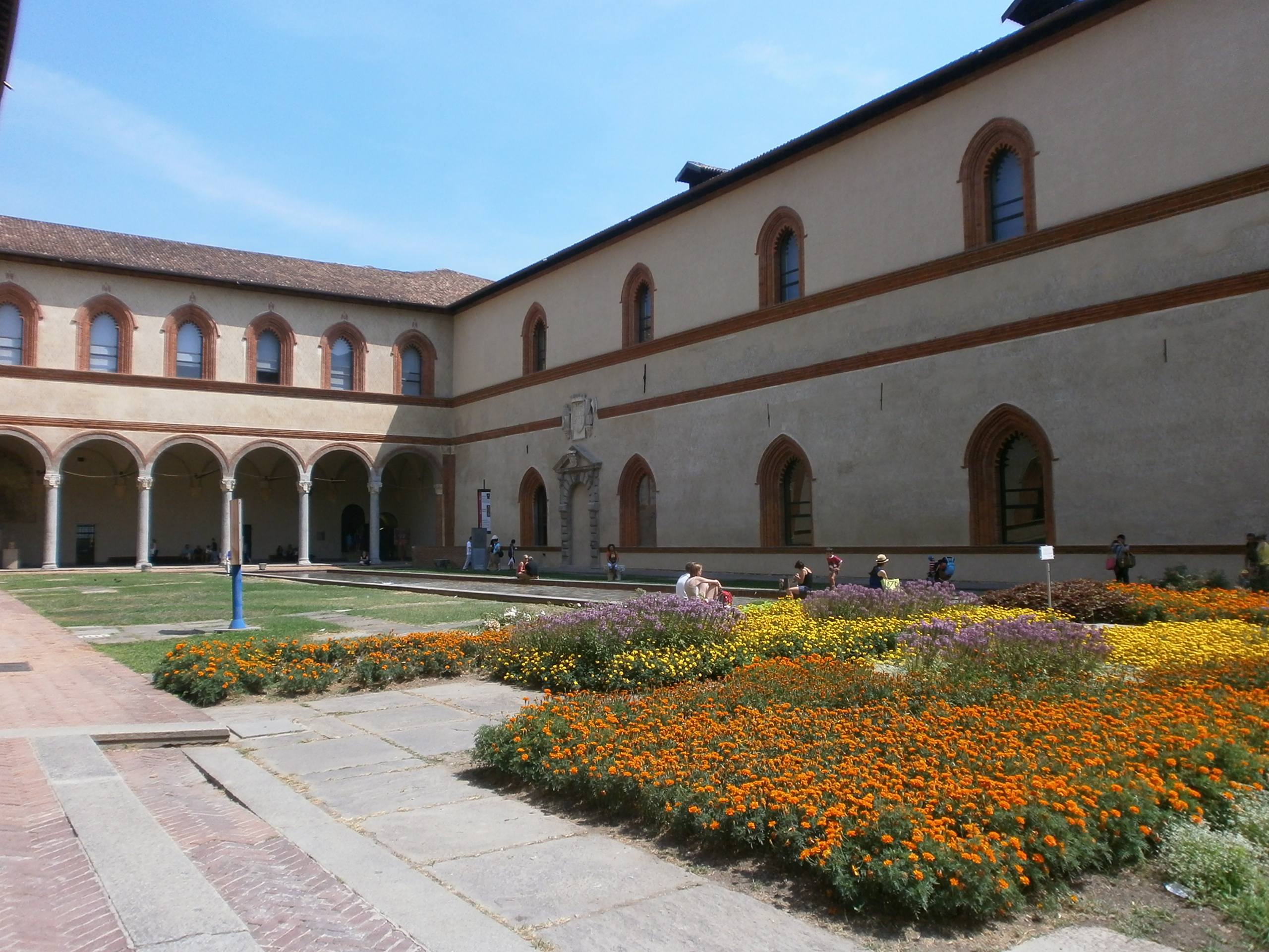 Sforza Castle garden - Milan